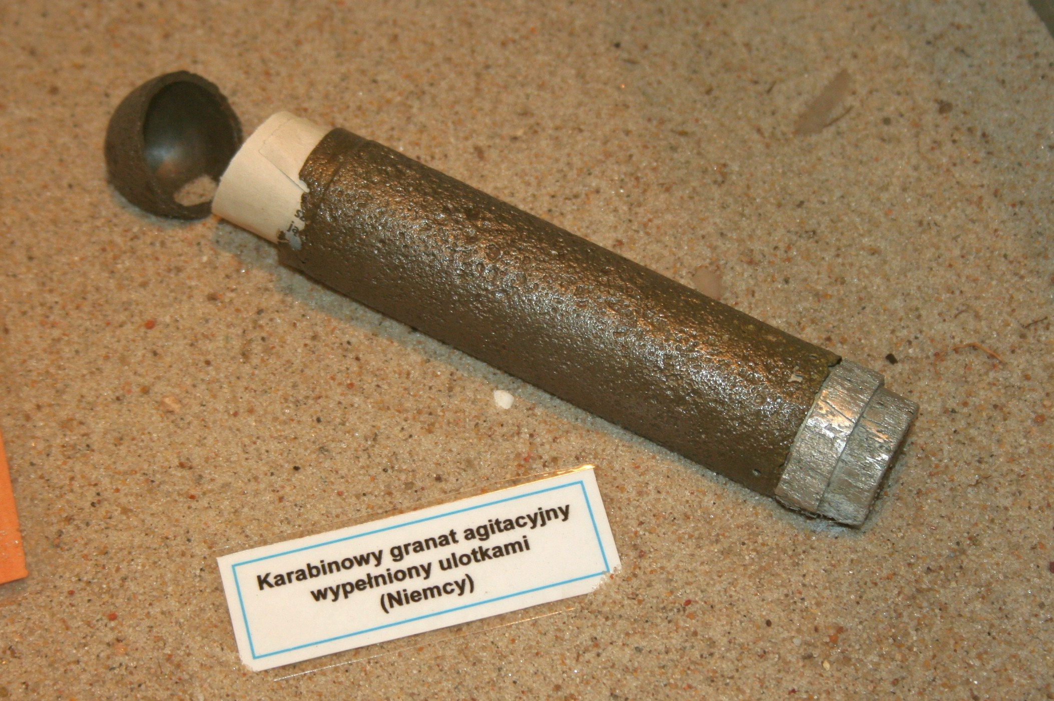 Collections of Museum of Coastal Defence - German propaganda rifle grenade.